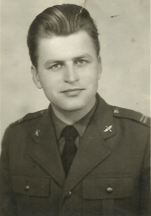 plut. Józef Lipowicz z 64.LPS w Przasnyszu, 1958/1963r.